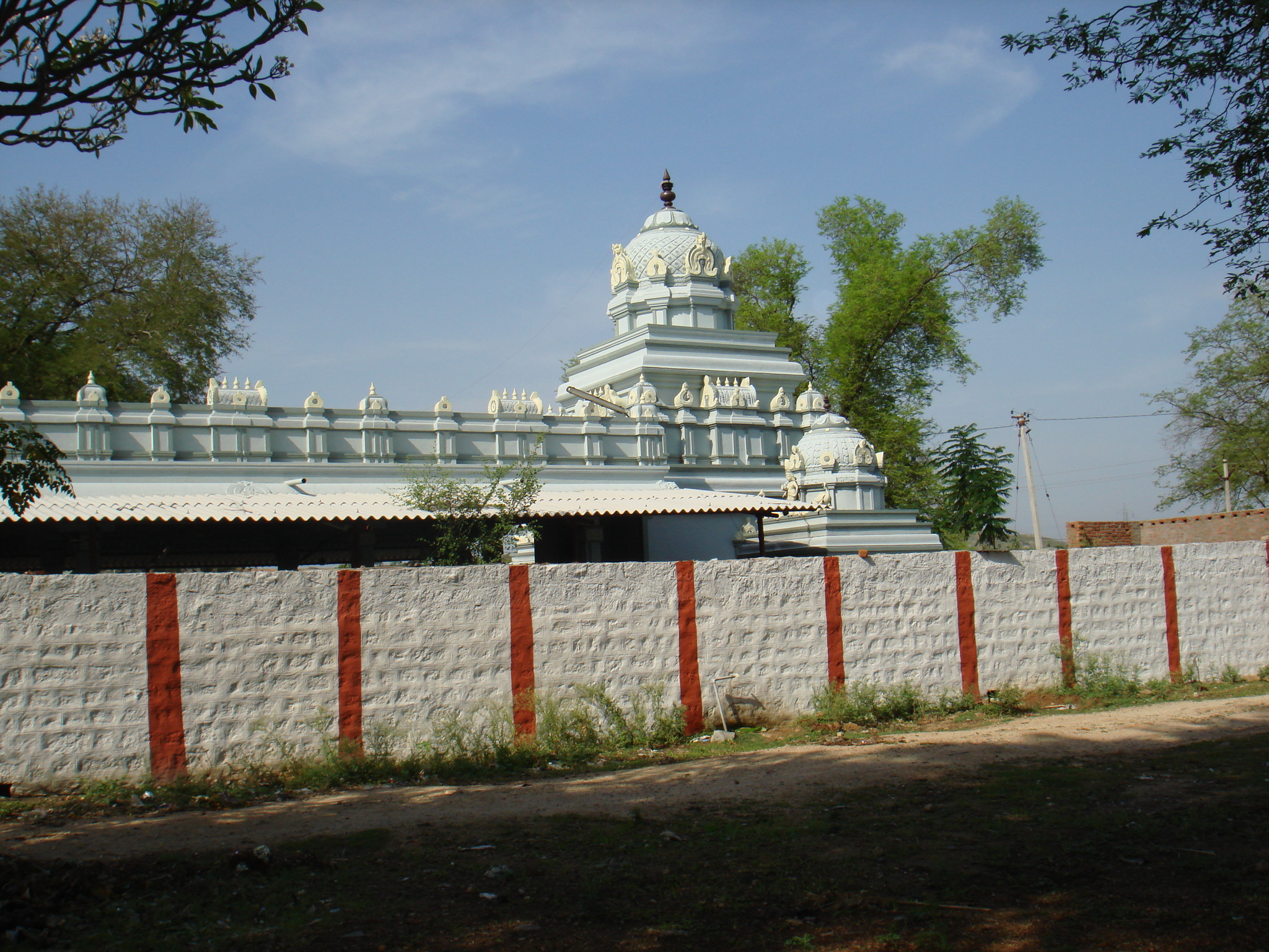 Gangammagudi